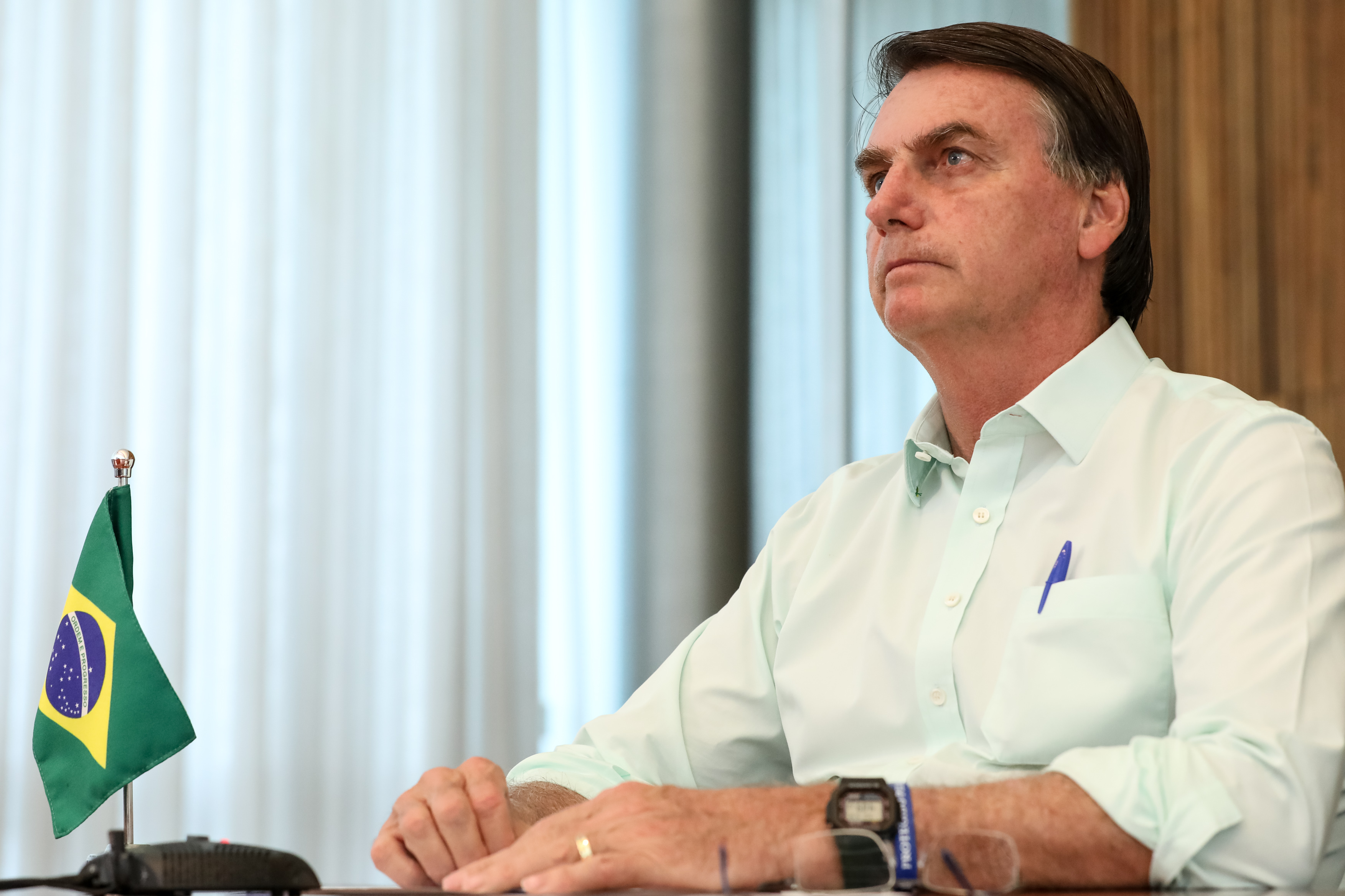 (Brasília - DF, 12/04/2020) Presidente da República, Jair Bolsonaro durante Celebração de Páscoa por videoconferência. Fotos: Marcos Corrêa/PR